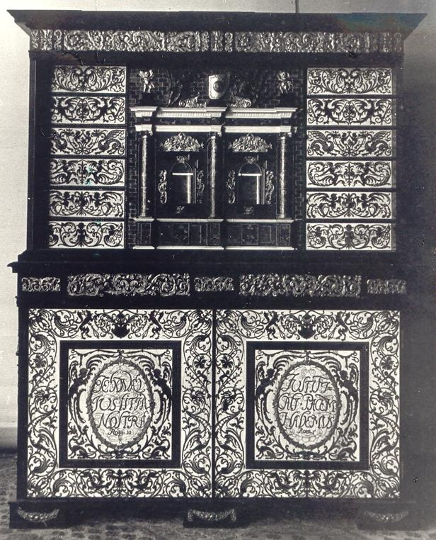 Photograph